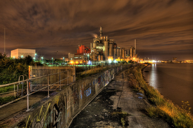 Procter & Gamble chemical works, West Thurrock, Essex